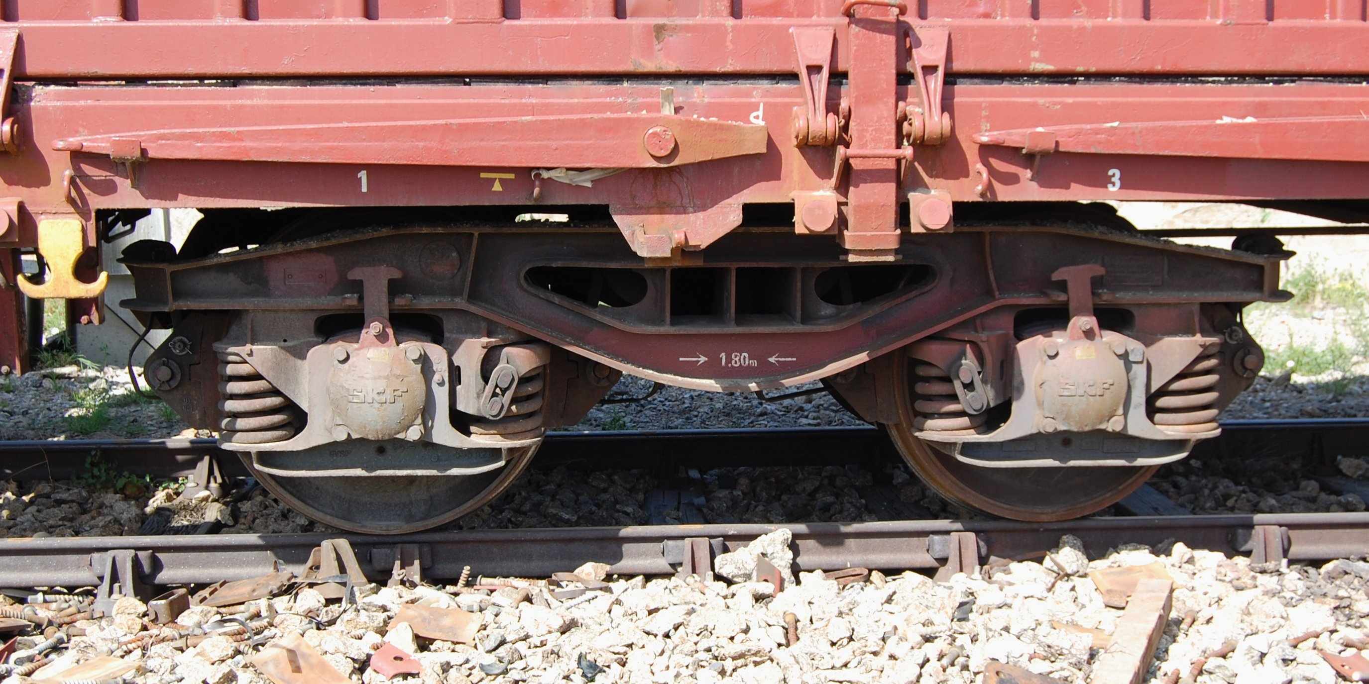 SNCF welded Y 25 bogie